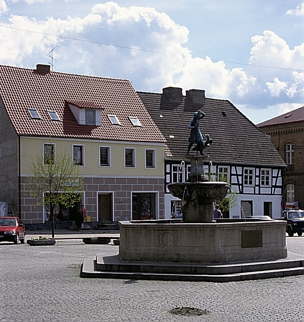 BARLINEK